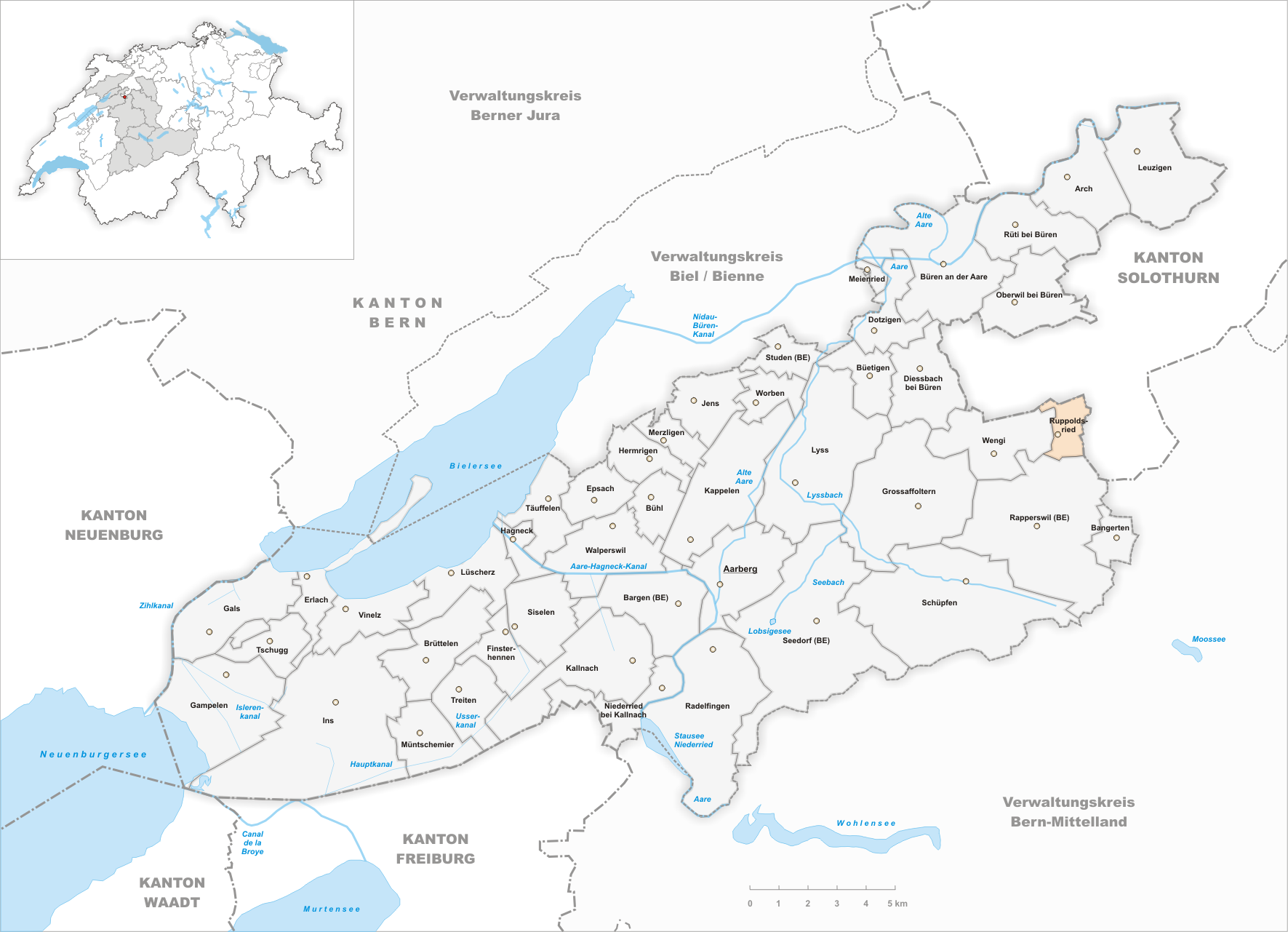 Municipality Ruppoldsried